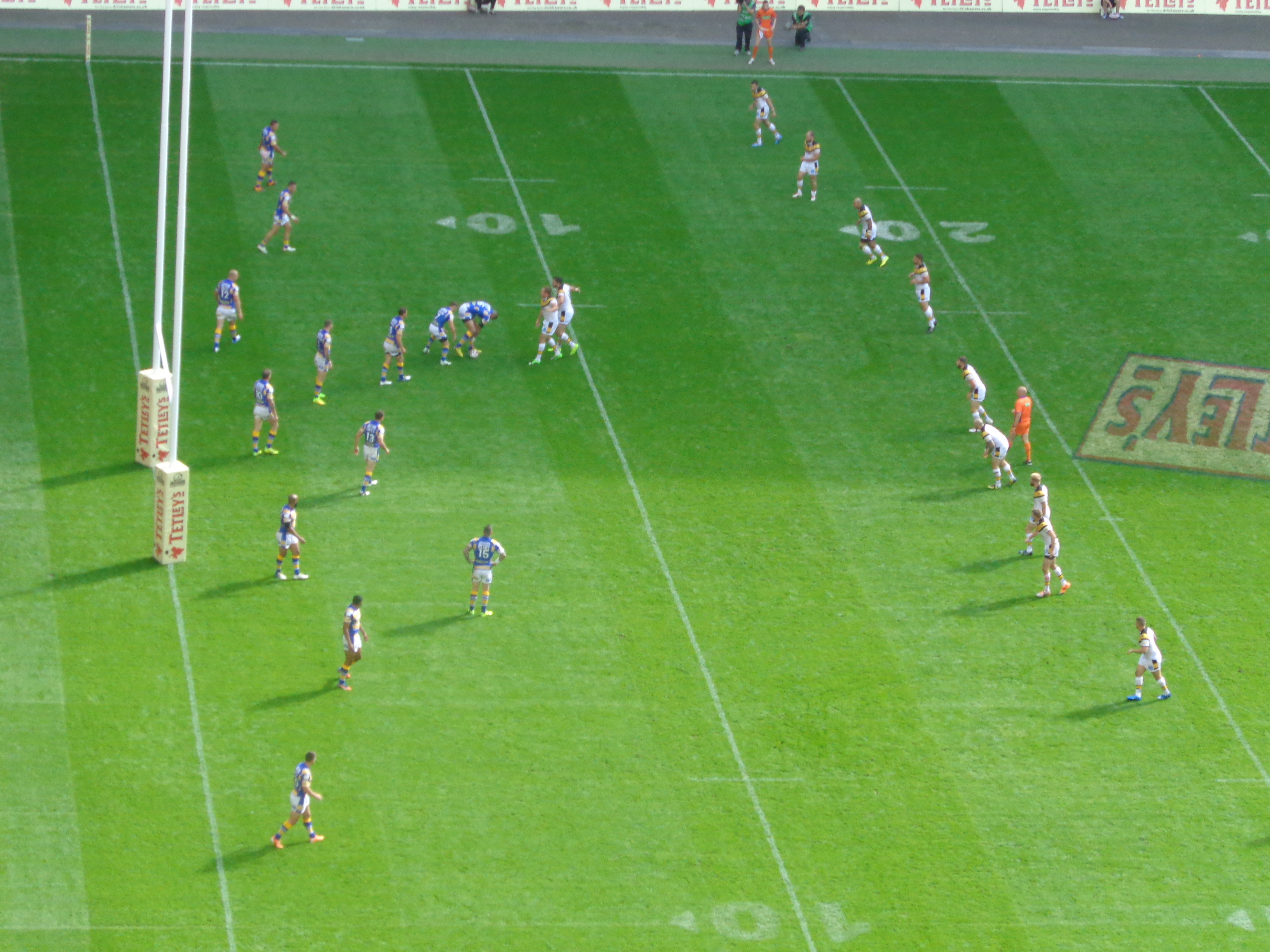 Gameplay during the 2014 Challenge Cup Final between Leeds Rhinos and Castleford Tigers. The match was won 23-10 by the Leeds Rhinos with Ryan Hall taking the Lance Todd Trophy and was kicked off on 3pm on Saturday the 23rd of August 2014.